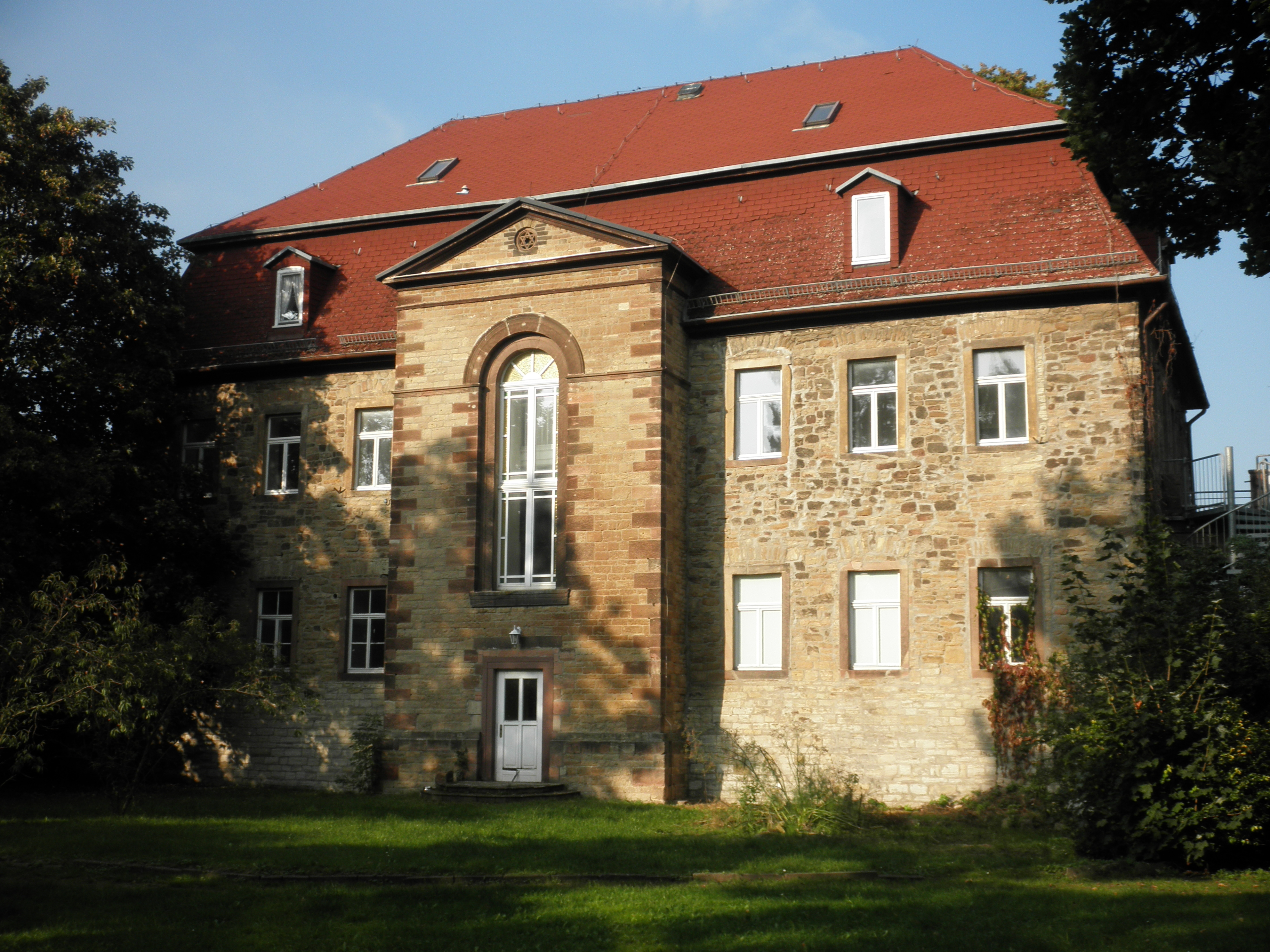 Castle in Nausitz in Thuringia